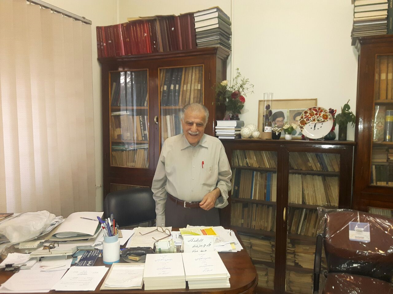 d. najafi